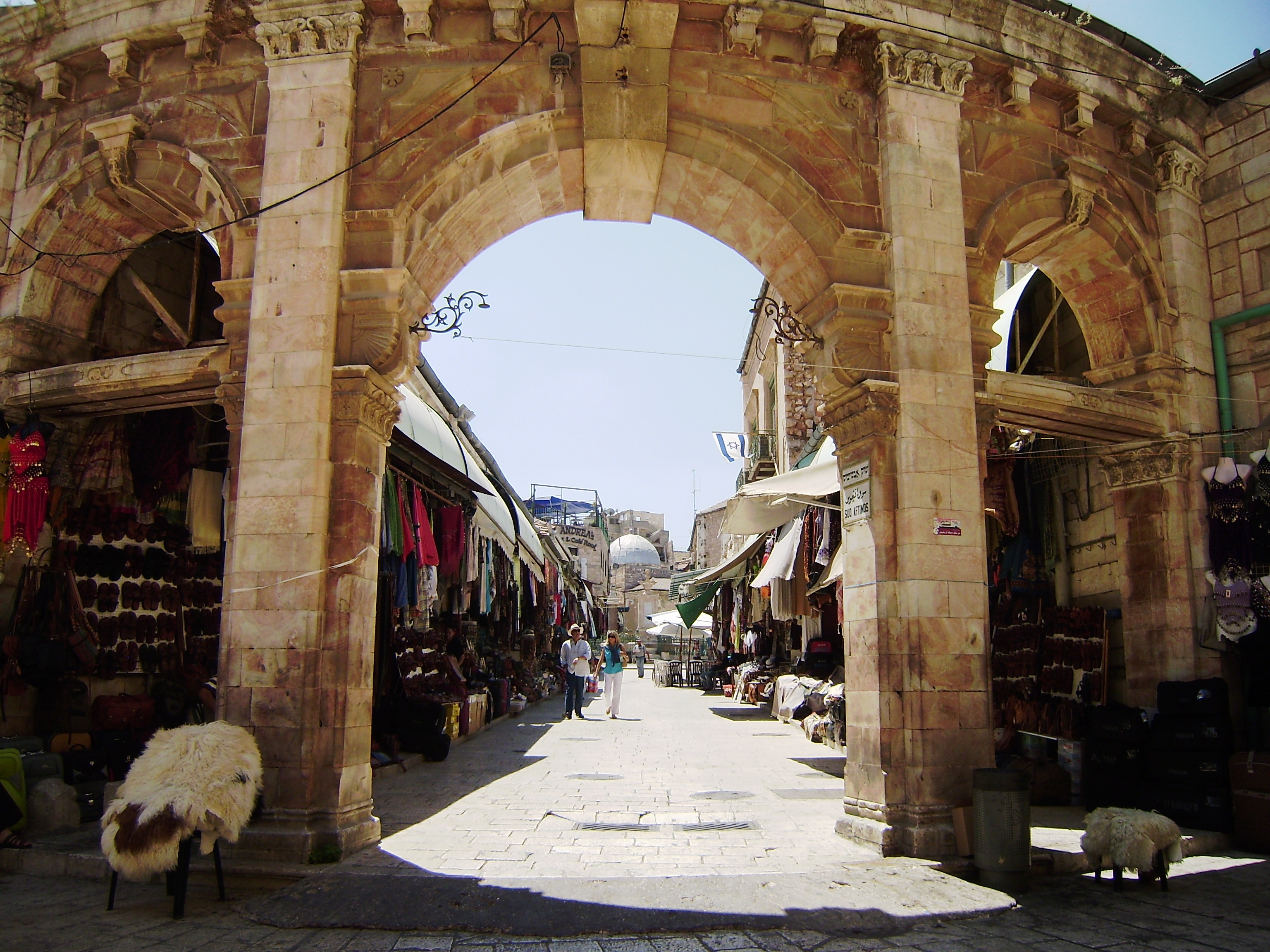 Suq Aftimos old market entrance, Jerusalem, Israel.